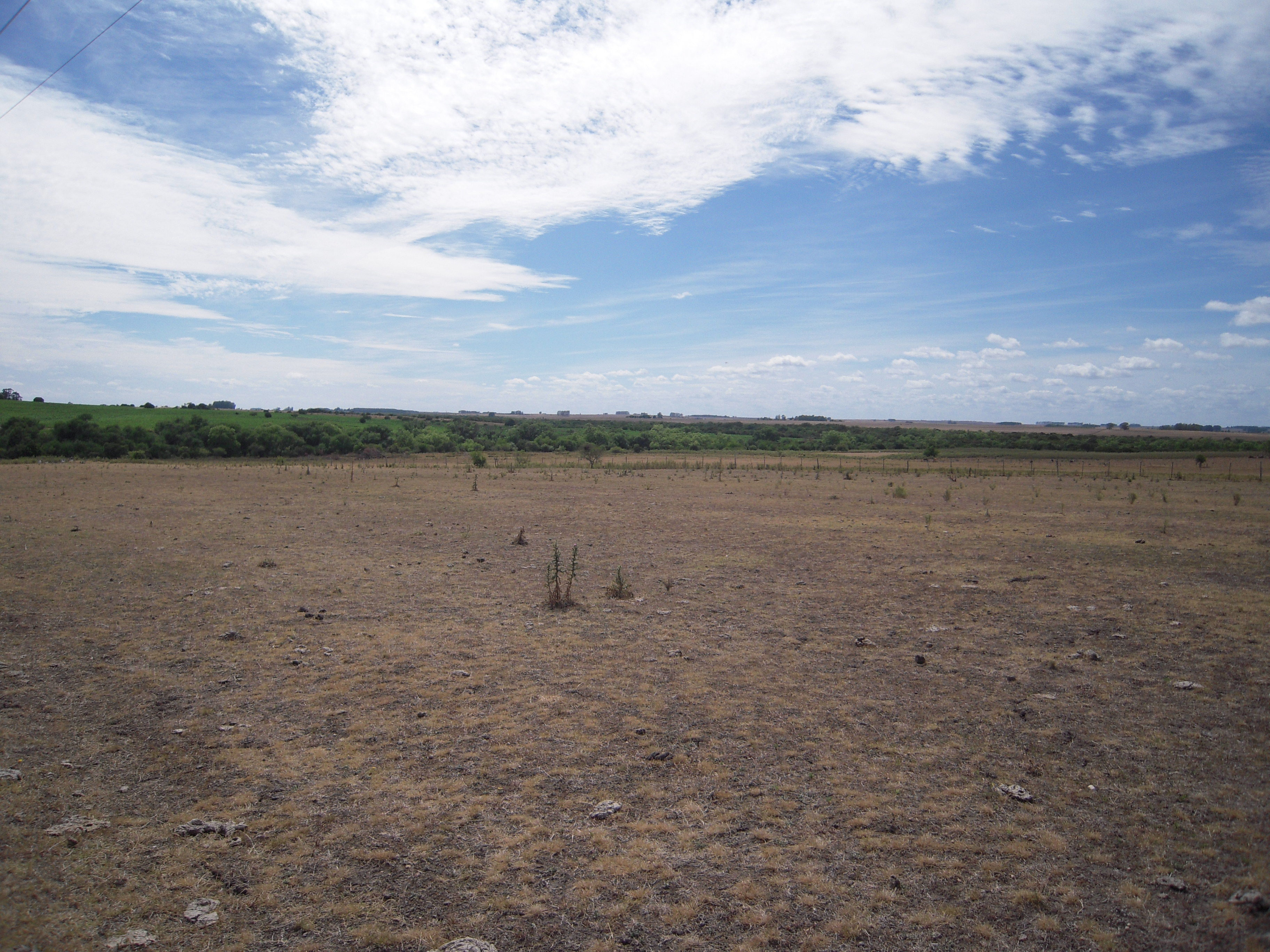 Pampas, Florida department, Uruguay